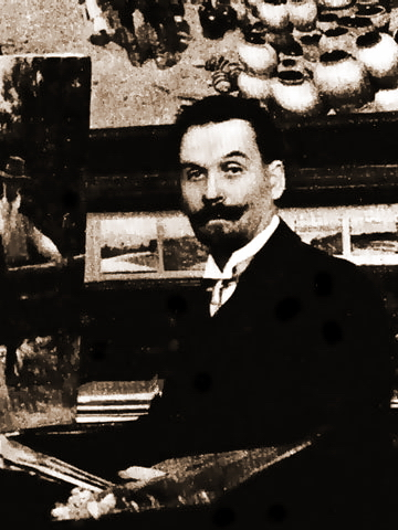 Mykola Pymonenko. Photography